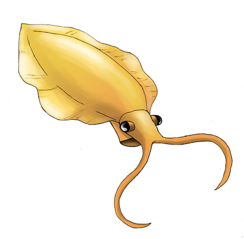 Nectocaris pteryx after the reconstruction in Smith & Caron 2010